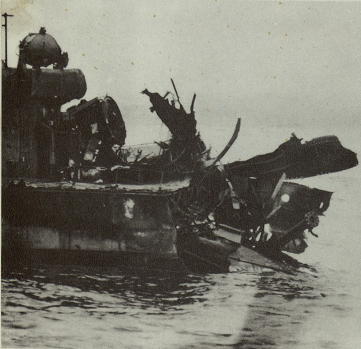 Black and white photo of mangled stern of destroyer HMS Javelin (F61), showing extensive torpedo damage